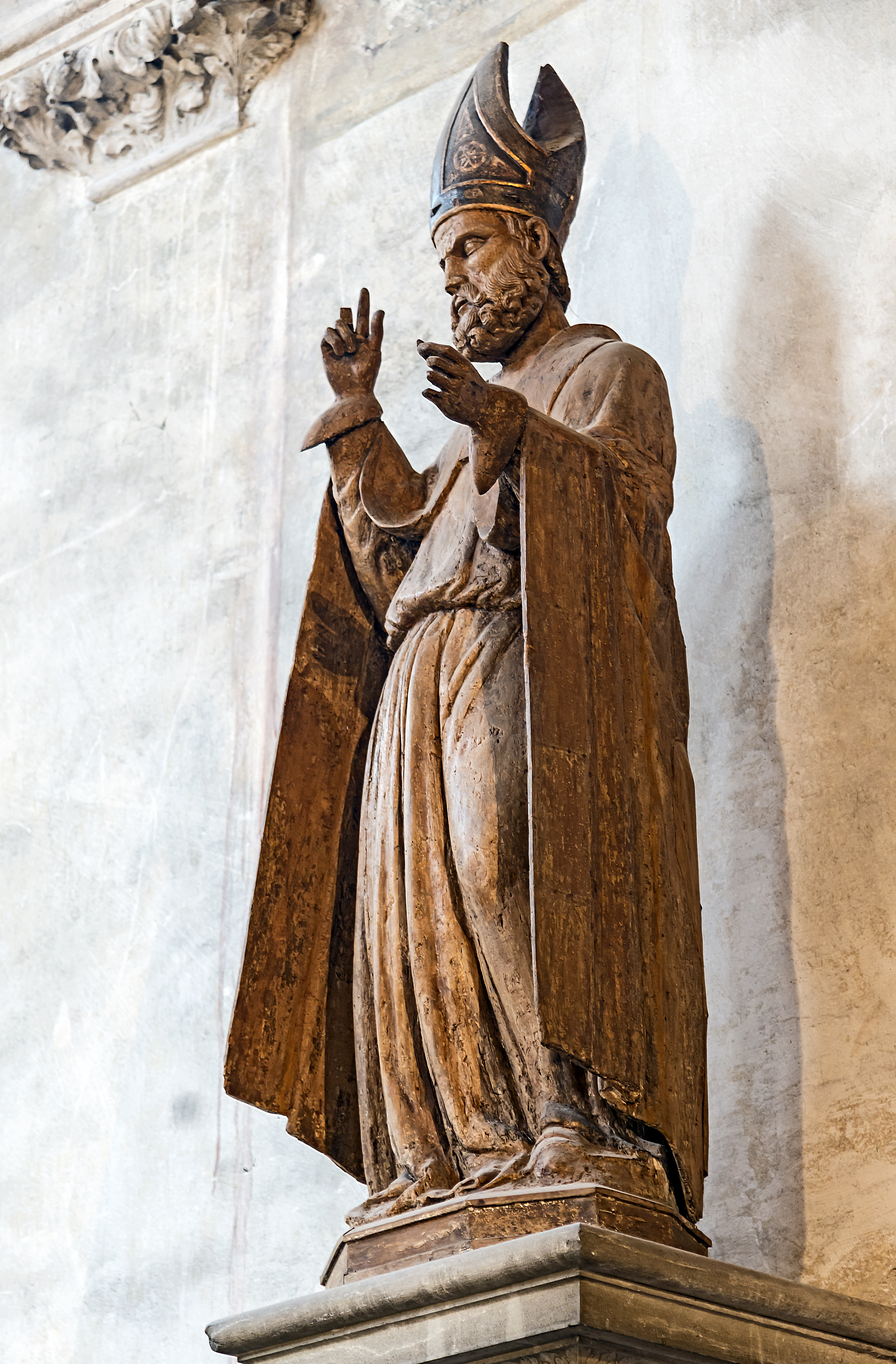 San Zaccaria in Venice - "Proculus of Verona" (1451) to almost life-size wooden statue, sculpted by the nuns' choir here but brought since 1595.